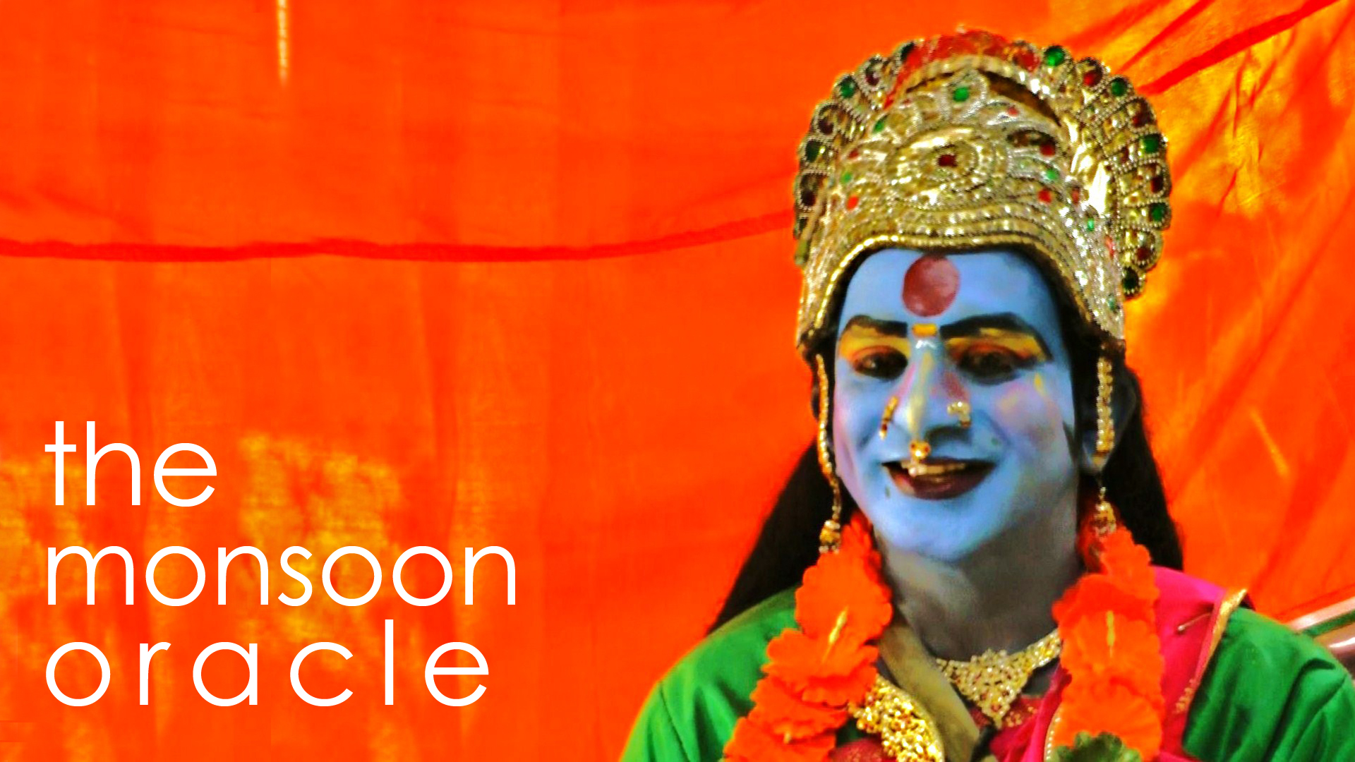 The Monsoon Oracle image for cover